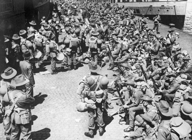 The arrival of the 2nd AIF in England. A large group of Australian soldiers waiting on a wharf and listening to a band playing. These troops were transported to England aboard the converted liner Queen Mary, which was too large to tie up to the docks at Gourock. Instead, Queen Mary anchored off shore in the Clyde Estuary and the Australian troops were brought to shore in smaller vessels, one of which, a ferry named Queen Mary II, is visible background right.